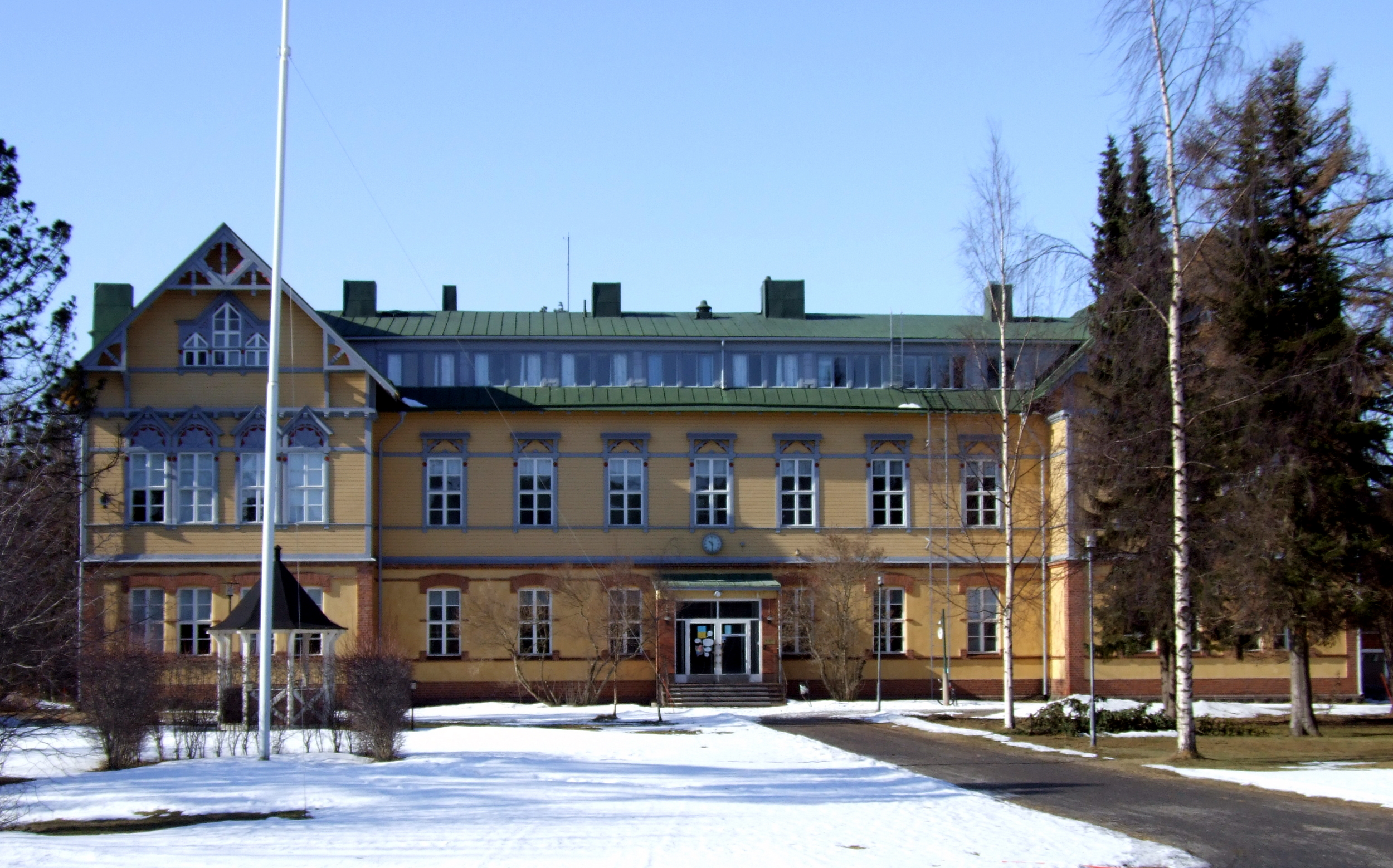 The main building of the Raahe Campus of Oulu University of Applied Sciences. The building was designed by architect Werner Polón and built in 1899 as Teacher seminar.